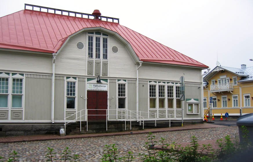 Culture centre Pakkahuone in Joensuu, Finland